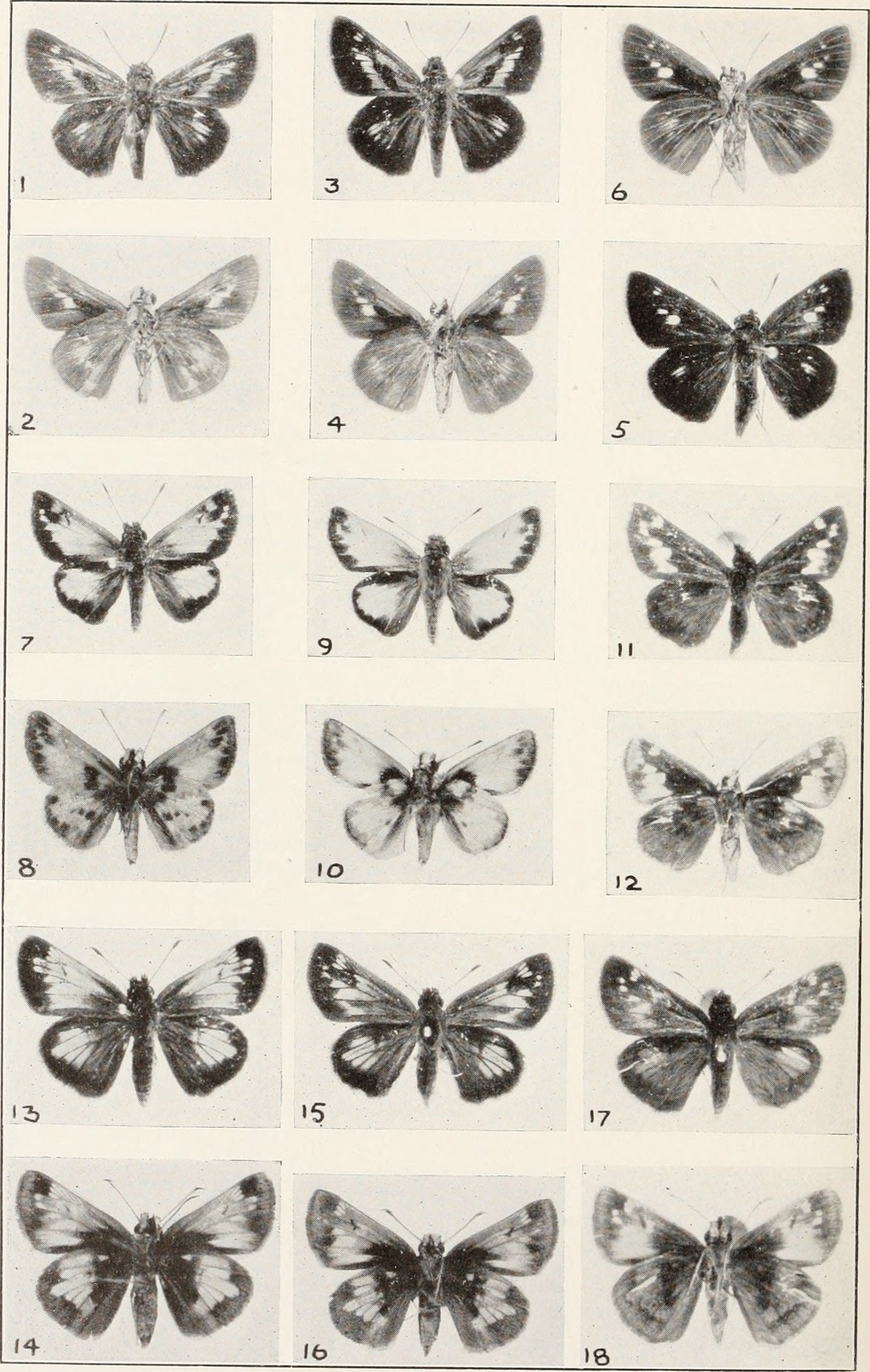 Title: Bulletin - United States National Museum Year: 1877 (1870s) Authors: United States National Museum Smithsonian Institution United States. Dept. of the Interior Subjects: Science Publisher: Washington : Smithsonian Institution Press, (etc.) for sale by the Supt. of Docs., U.S. Govt Print. Off. Text Appearing Before Image: »8 POANES, HYLEPHIUA, POLITES. AND LEREMA U. S. NATIONAL MUSEUM BULLETIN 157 PLATE 54 Text Appearing After Image: Atrytone pontiac, Poanes zabulon. and p. HOBOMOK Plate 54 Figures 1, 2. Atrytone pontiac, male, upper (1) and under (2) sides. New-tonville. Mass., July 11, 1923.3, 4. Atrytone pontiac, male, upper (3) and under (4) sides. Belts- ville, Md., July 15, 1928,5, 6. Atrytone pontiac, female, upper (5) and under (6) sides. Belts- ville, Md., July 6, 1929.7, 8. Poanes zahulon, male, upper (7) and under (8) sides. Cabin John, Md., September 1. 1929.9, 10. Poanes zahulon, male, upper (9) and under (10) sides. HighIsland, Md. R. P. Currie.11, 12. Poanes zabtilon, female, upper (11) and under (12) sides. Cabin John, Md., June 2, 1929.13, 14. Poanes hoiomok, female, upper (13) and under (14) .sides. Cabin John Md., June 2. 1929.15, 16. Poanes hohomok, female, upper (15) and under (IG) sides. New Jersey.17, 18 Poanes hobonwk. female, upper (17) and under (18) sides.Cabin John, Md., June 2, 1929. 311 Plate 55 Figures 1, 2. Atrytone dioii, male, upper (1) and under (2) sides.3, 4. Eryunls metea, mal